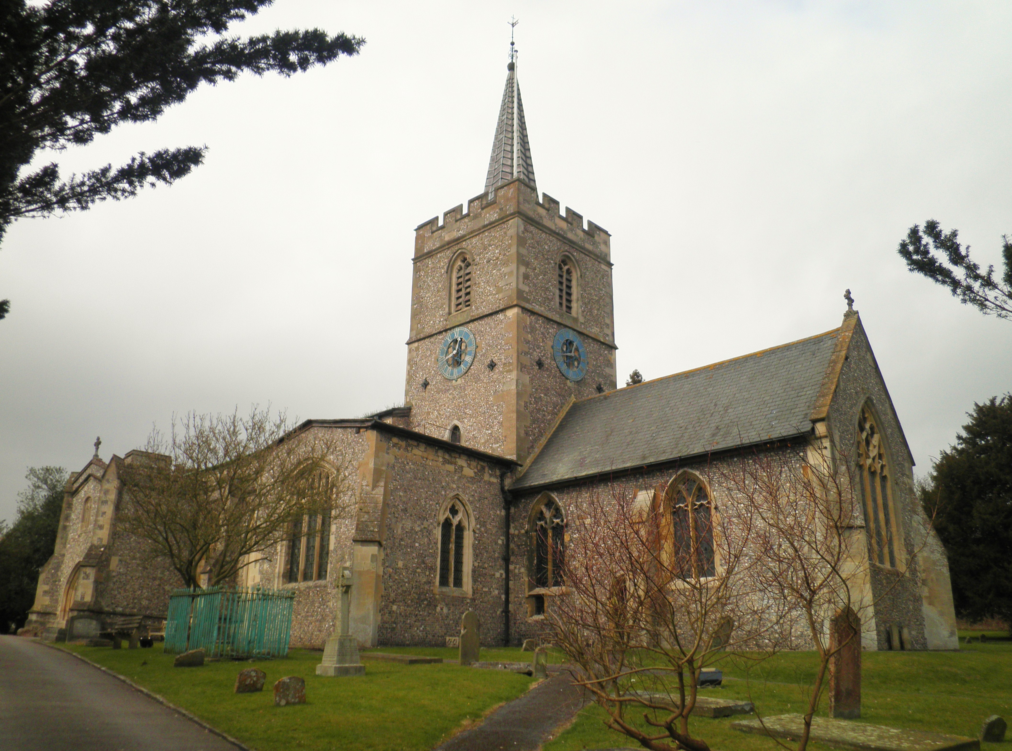 St Mary's Church, Chesham, Buckinghamshire